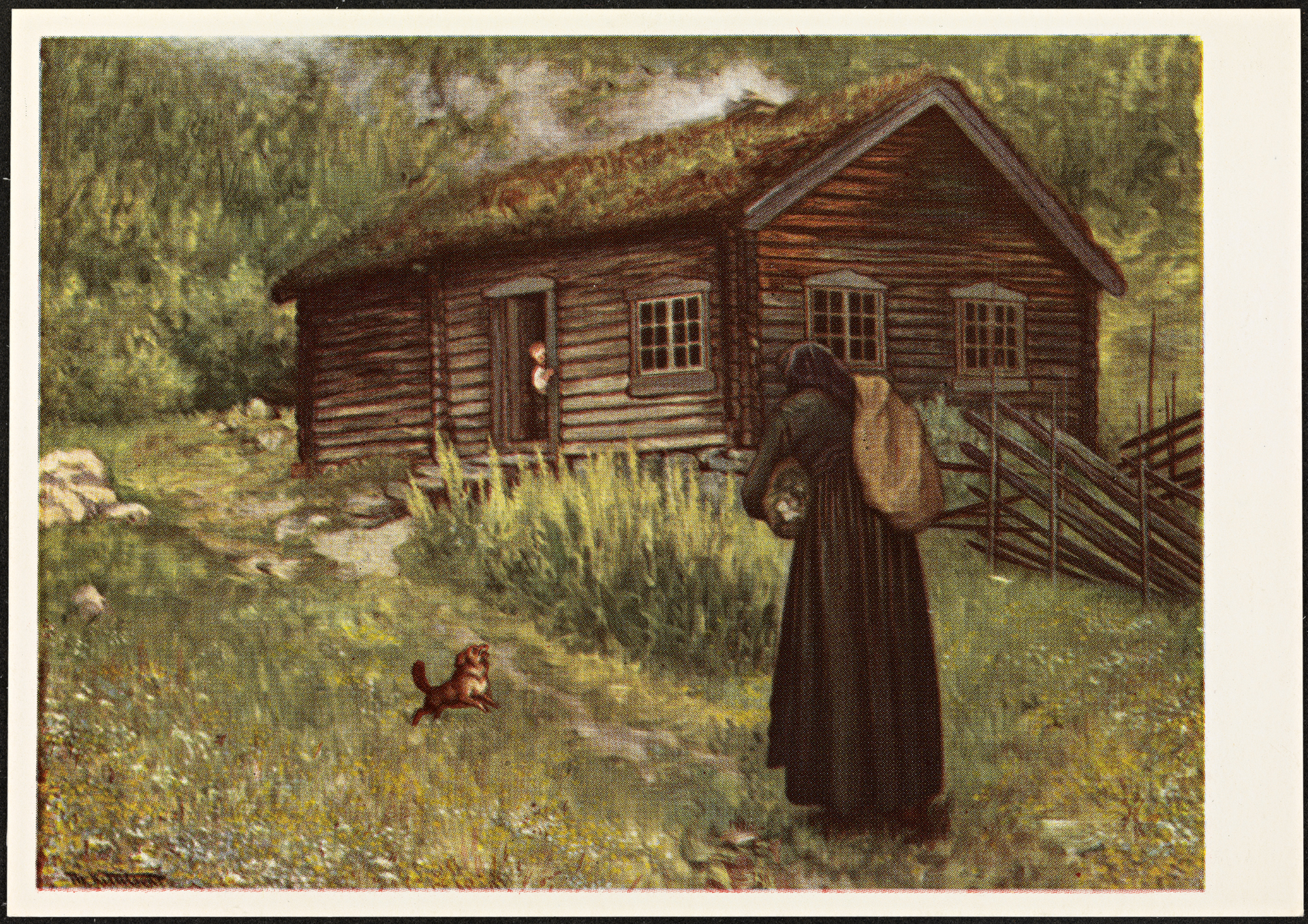 Tittel / Title: Th. Kittelsen: Smørbokk Motiv / Motif: Postkort. Smørbukk. Dato / Date: ukjent / unknown Kunstner / Artist: Theodor Kittelsen (1857-1914) Utgiver / Publisher: Mittet & Co. Eier / Owner Institution: Nasjonalbiblioteket / National Library of Norway Lenke / Link: Bildesignatur / Image Number: blds_04826